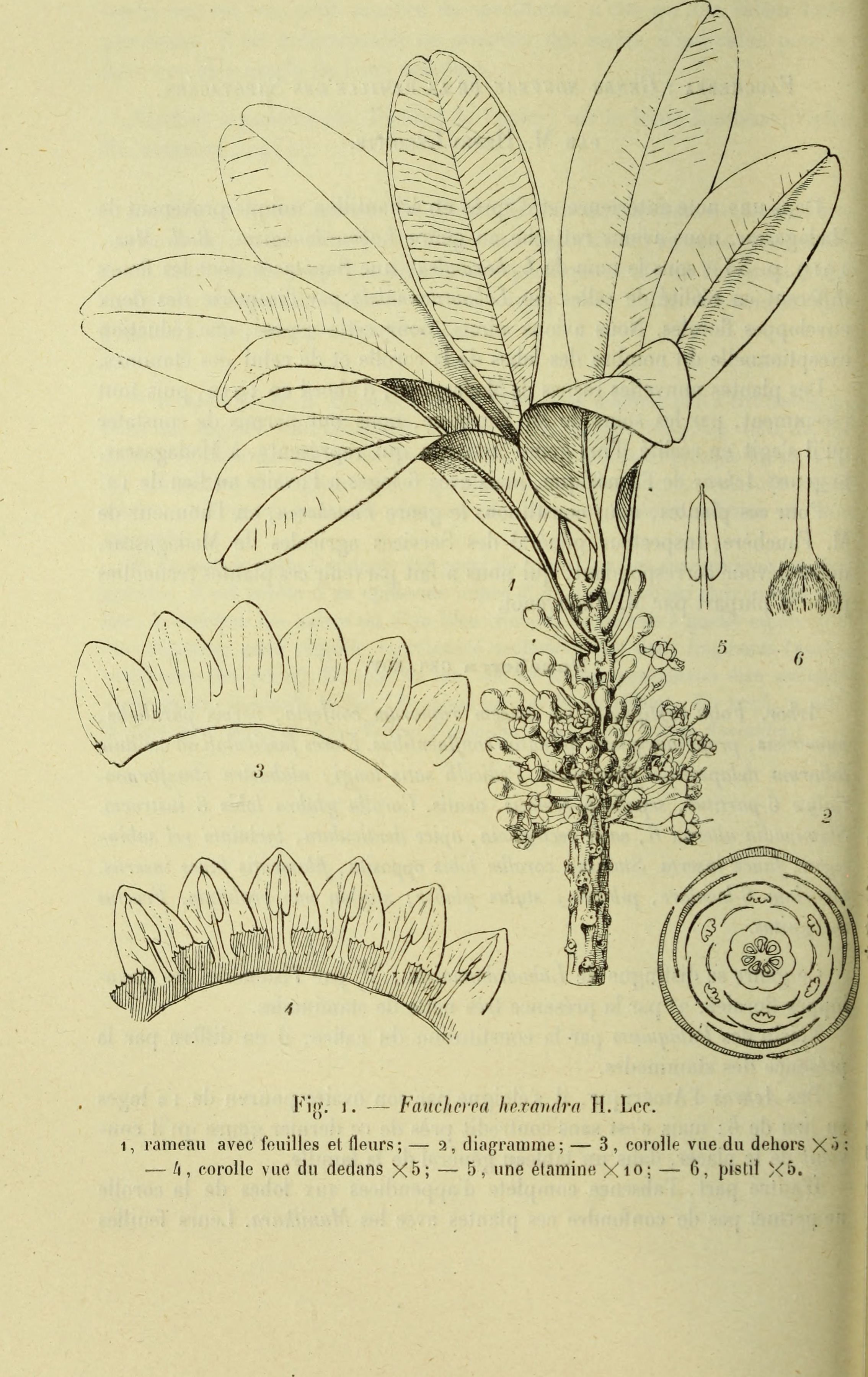 Title: Bulletin du Muséum d'histoire naturelle Year: 1895 (1890s) Authors: Muséum national d'histoire naturelle (Paris) Subjects: Natural history Publisher: Paris : Impr. nationale Text Appearing Before Image: — U6 — Text Appearing After Image: '